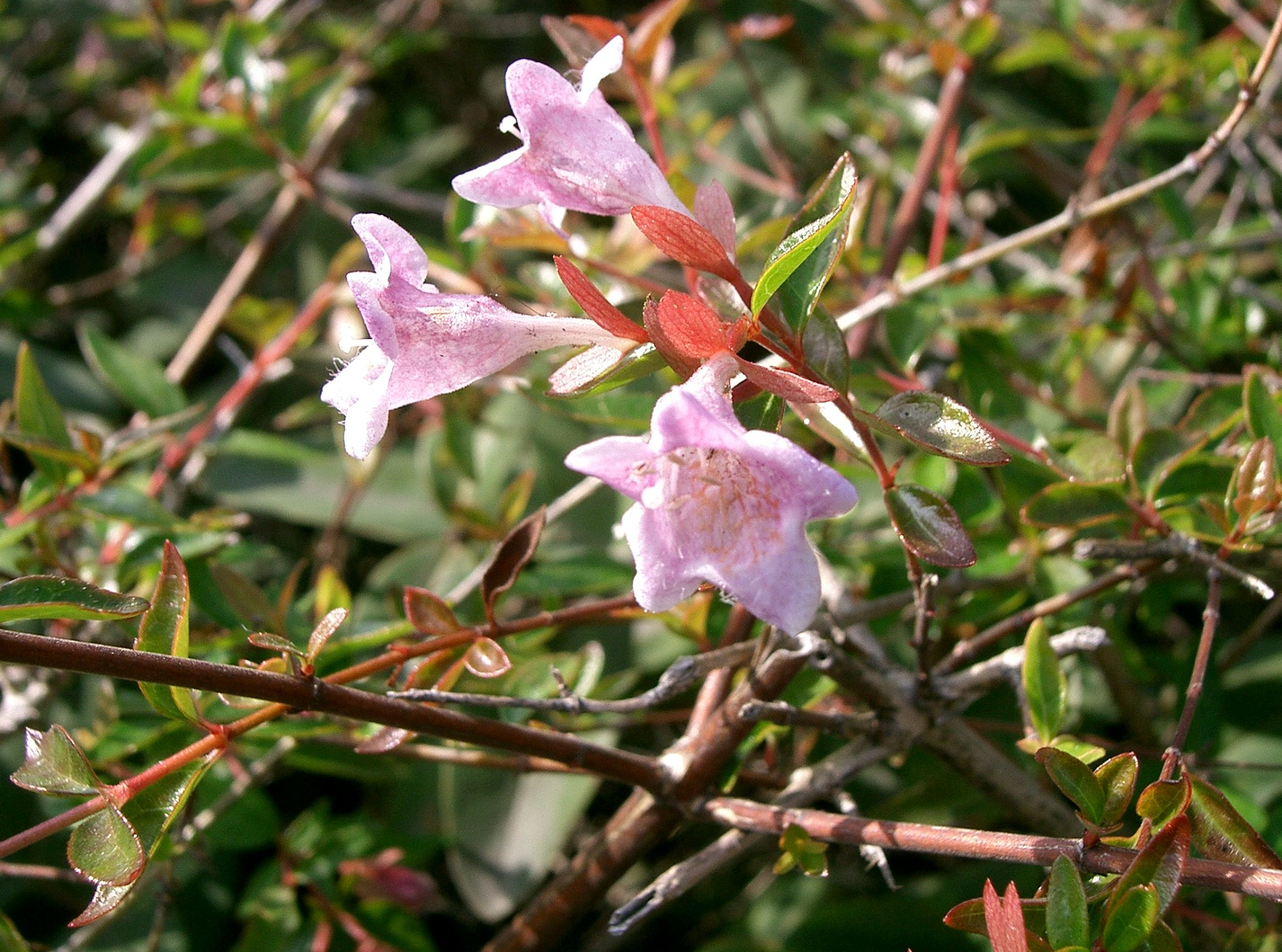 Abelia x grandiflora 'Edward Goucher'